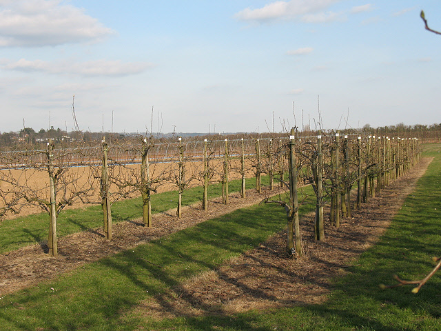 Orchard at East Malling The orchard is shown on the map and is probably part of the East Malling Research Centre